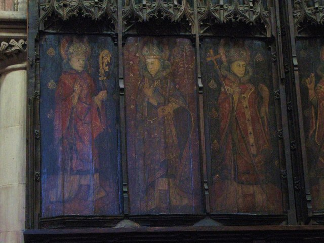 The seven canonised Saxon bishops of Hexham (part 1), former reredos, Hexham Abbey. The reredos, which would originally have been behind an altar, has large paintings of the seven canonised Saxon bishops of Hexham; the three in this image are (from the left): Alchmund, Eata and Wilfrid. {Source: Hexham Abbey Guide, p18.} See 732190 for a general view of the reredos. See 748677 for a view of the other four paintings. The paintings were executed in the reign of Edward IV (b1442) who reigned from 1461 to October 1470 and from April 1471 until his death in 1483. The Battle of Hexham on 15th May 1464 marked the end of significant Lancastrian resistance in the north of England during the early part of the reign of Edward IV.